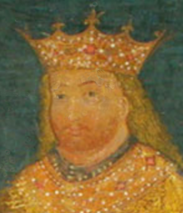 Portray of the Moldavian King Ștefan cel Mare from the church of Pătrăuți